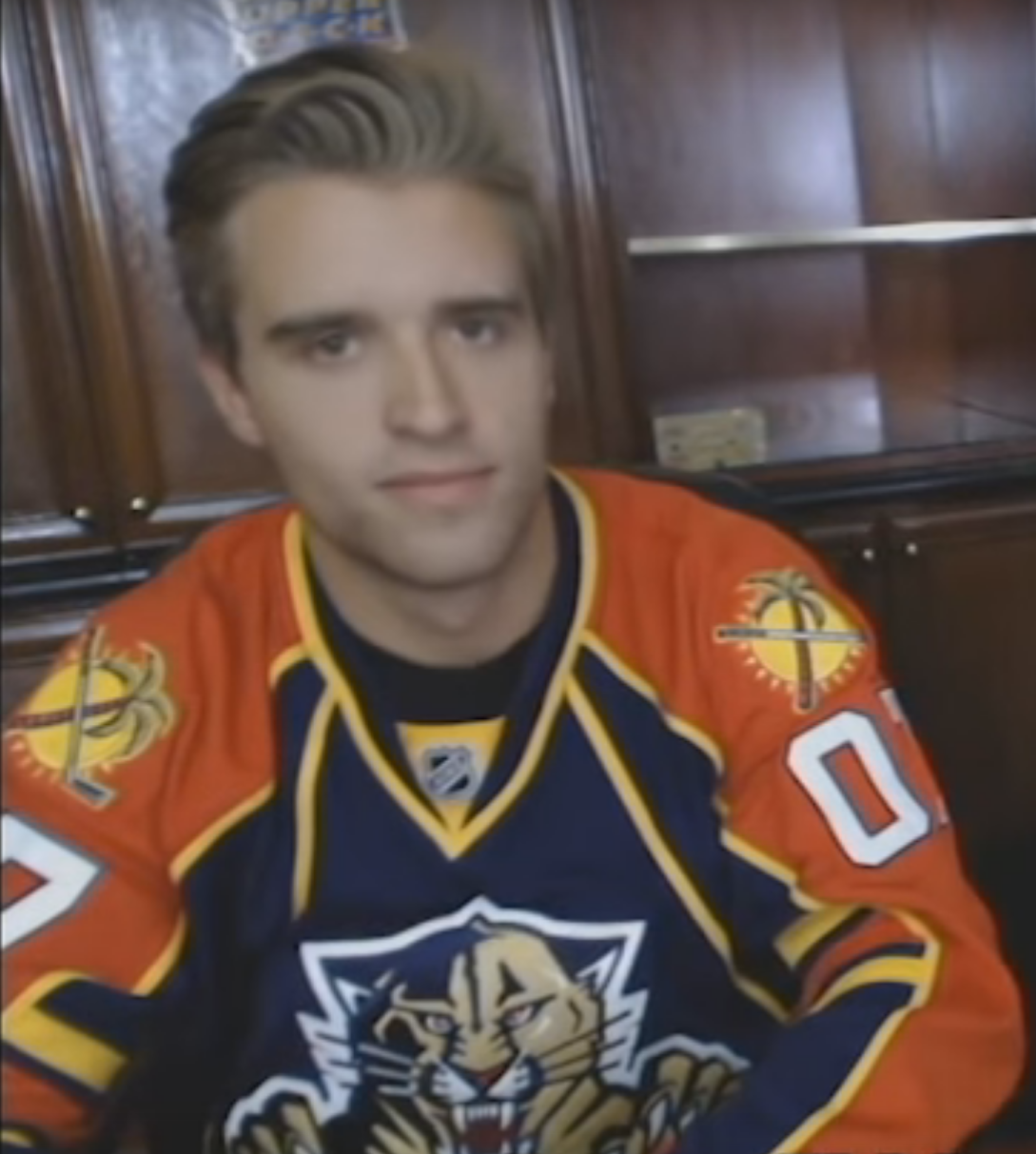 Aaron Ekblad opening cards